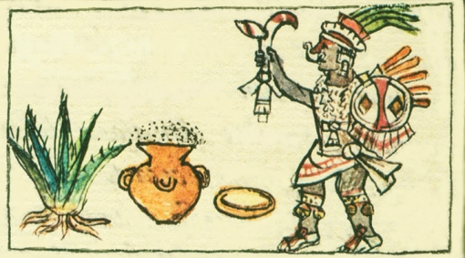 A drawing shows Mayahuel, goddess of the maguey, with a mature agave and a pot of fermented pulque. The first liquid that pours into the heart of the maguey is called aguamiel (literally, honey water); legend says that aguamiel is Mayahuel's blood.